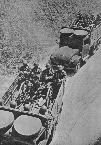 Czechoslovak motorized infantry with 20mm anti-aircraft gun vz. 36